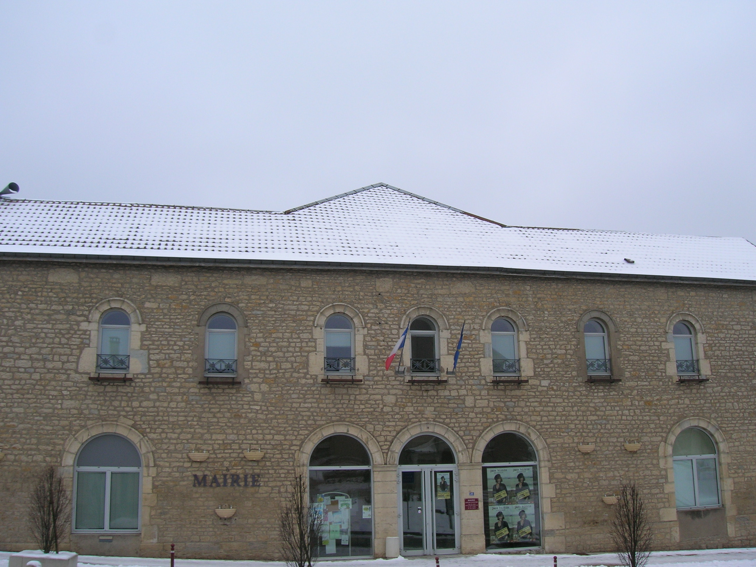 This is Saône Town Hall in the snow